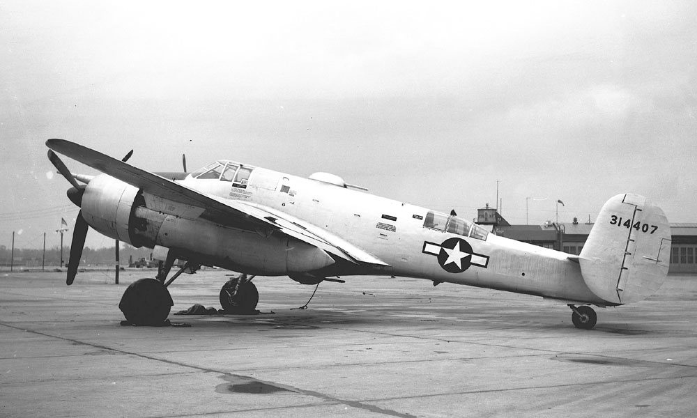 Beech XA-38 wrightfield 1945